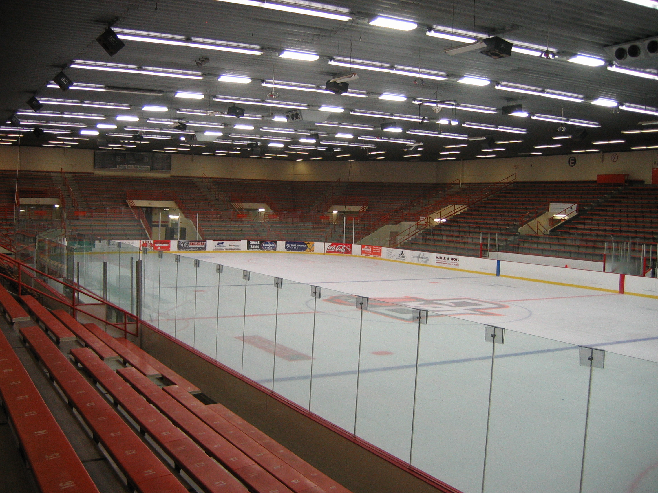 Football & Basketball Facilities Bowling Green Hockey Rink